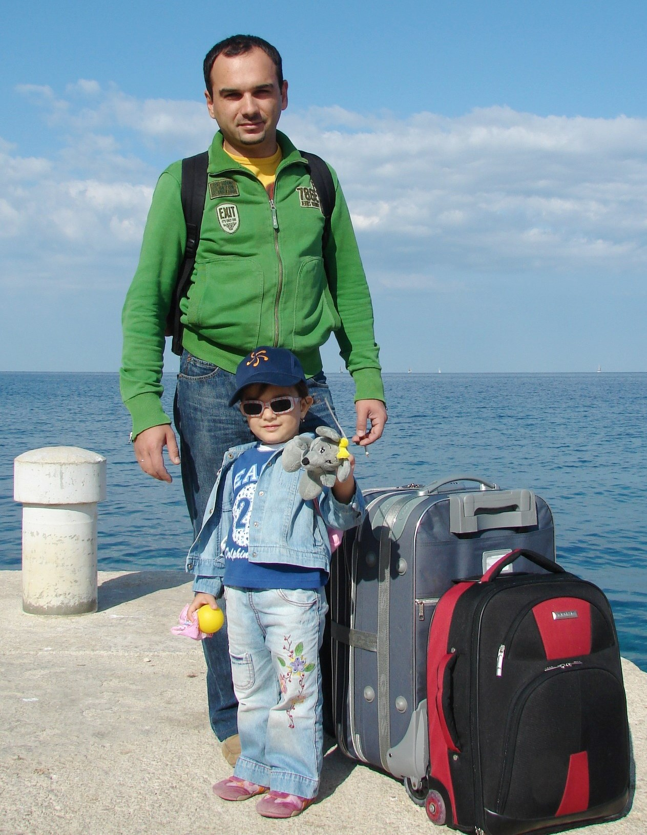 Mariturism_Adriatic Sea, Rovinj, Croatia, (Khilchevskyi Rostyslav and Oleksandra, 2008)